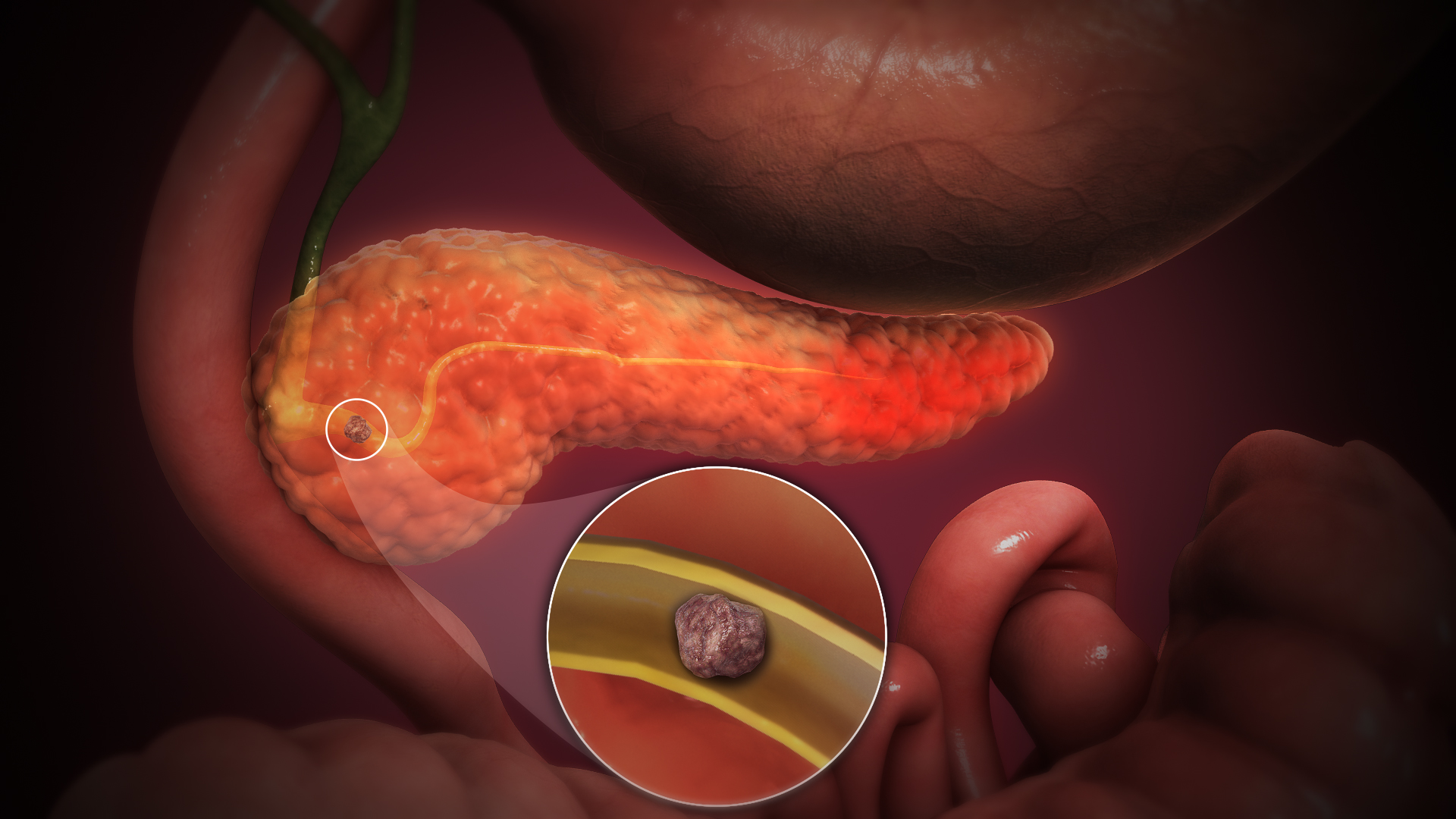 3D Medical Animation still shot of pancreas showing acute pancreatitis